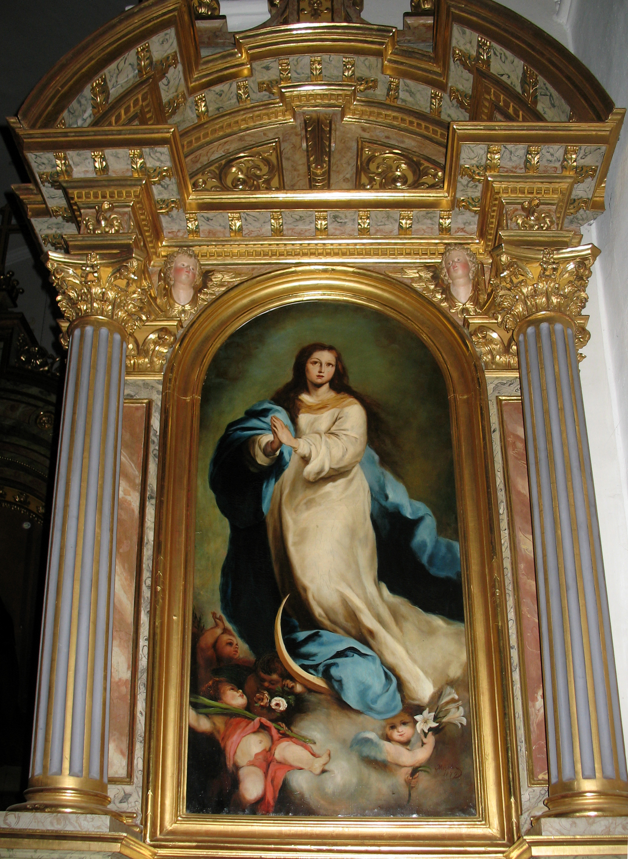 From the S. Antony church of St. Ulrich in Gröden - Ortisei Val Gardena Italy. painter Josef Moroder-Lusenberg 1876. A painting after Murillo's Maria Immaculata around 1660-1665 in the Prado in Madrid